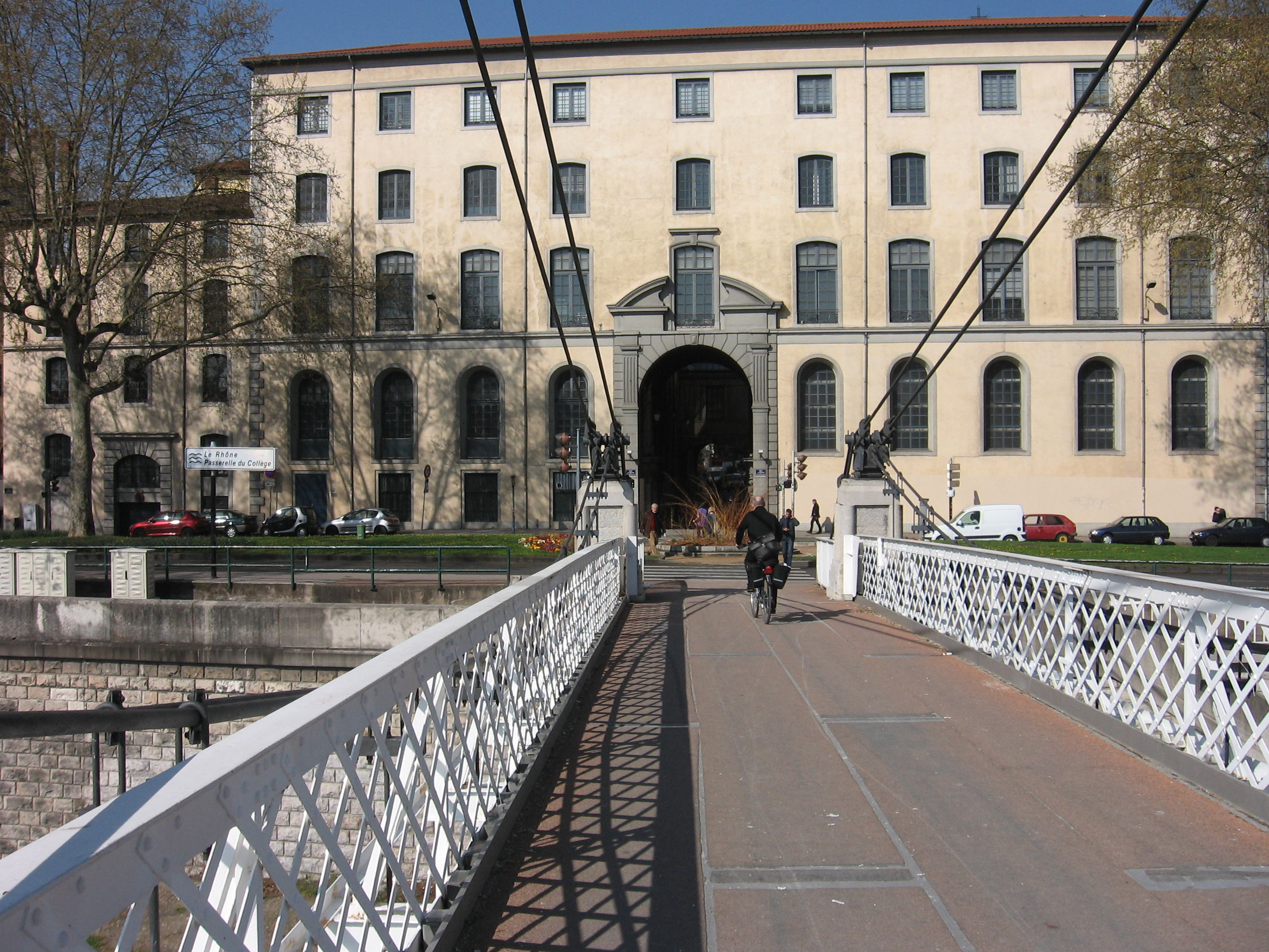 Bridge in Lyon